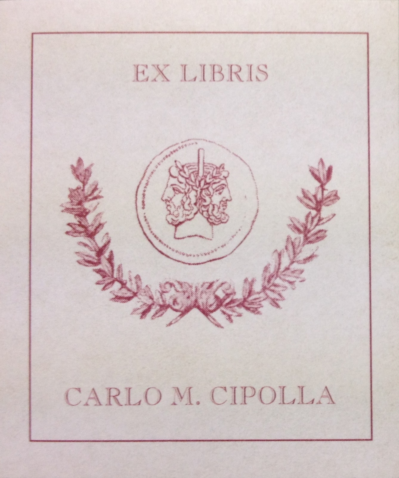 Carlo M. Cipolla bookplate